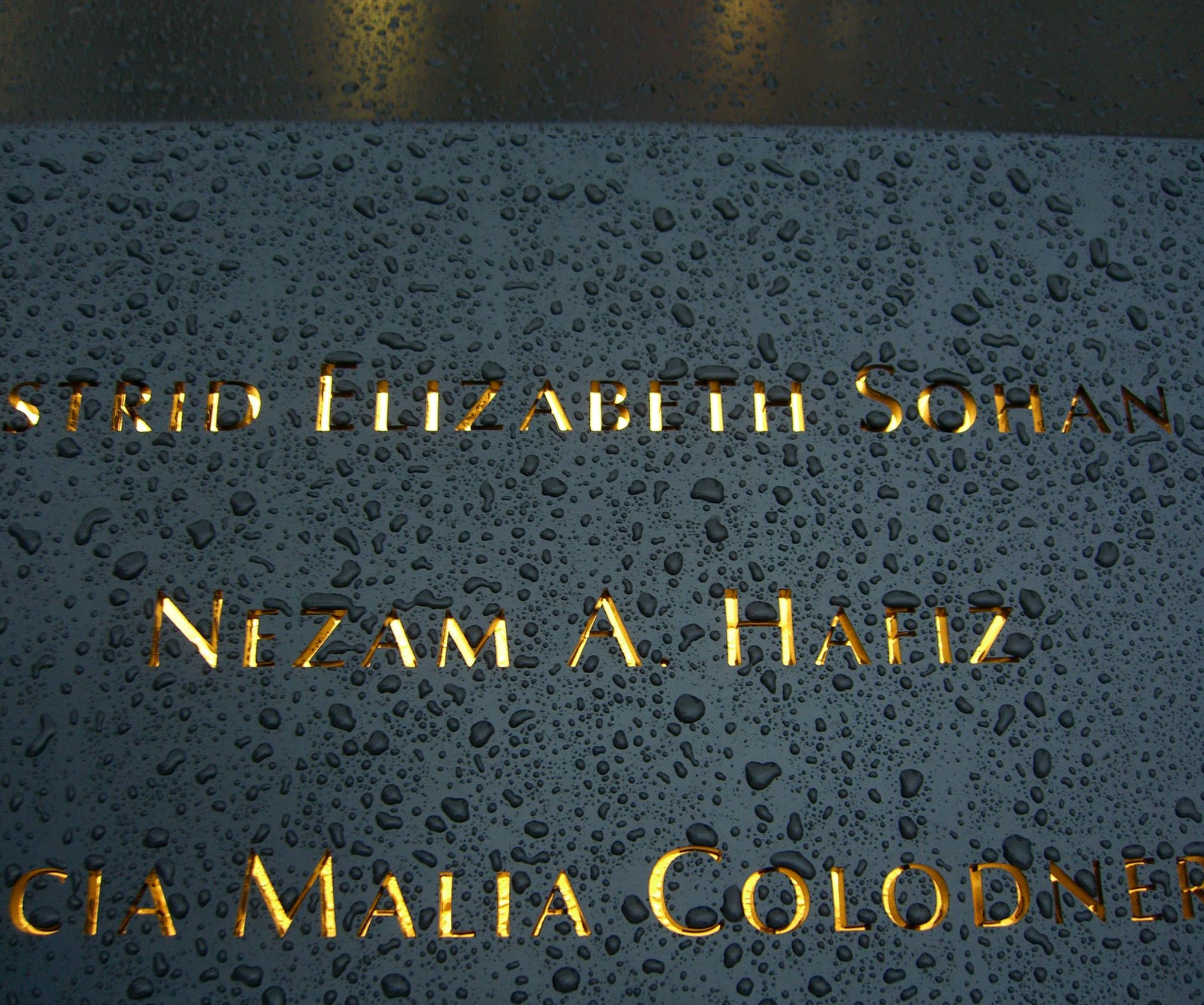 The name of 9/11 victim Nezam Hafiz inscribed in bronze on panel N-6 of the North Pool of the National September 11 Memorial in Manhattan, as seen on December 6, 2011. This photo was created by Luigi Novi. If you have any questions, you can contact me by sending me an email or User talk:Nightscream